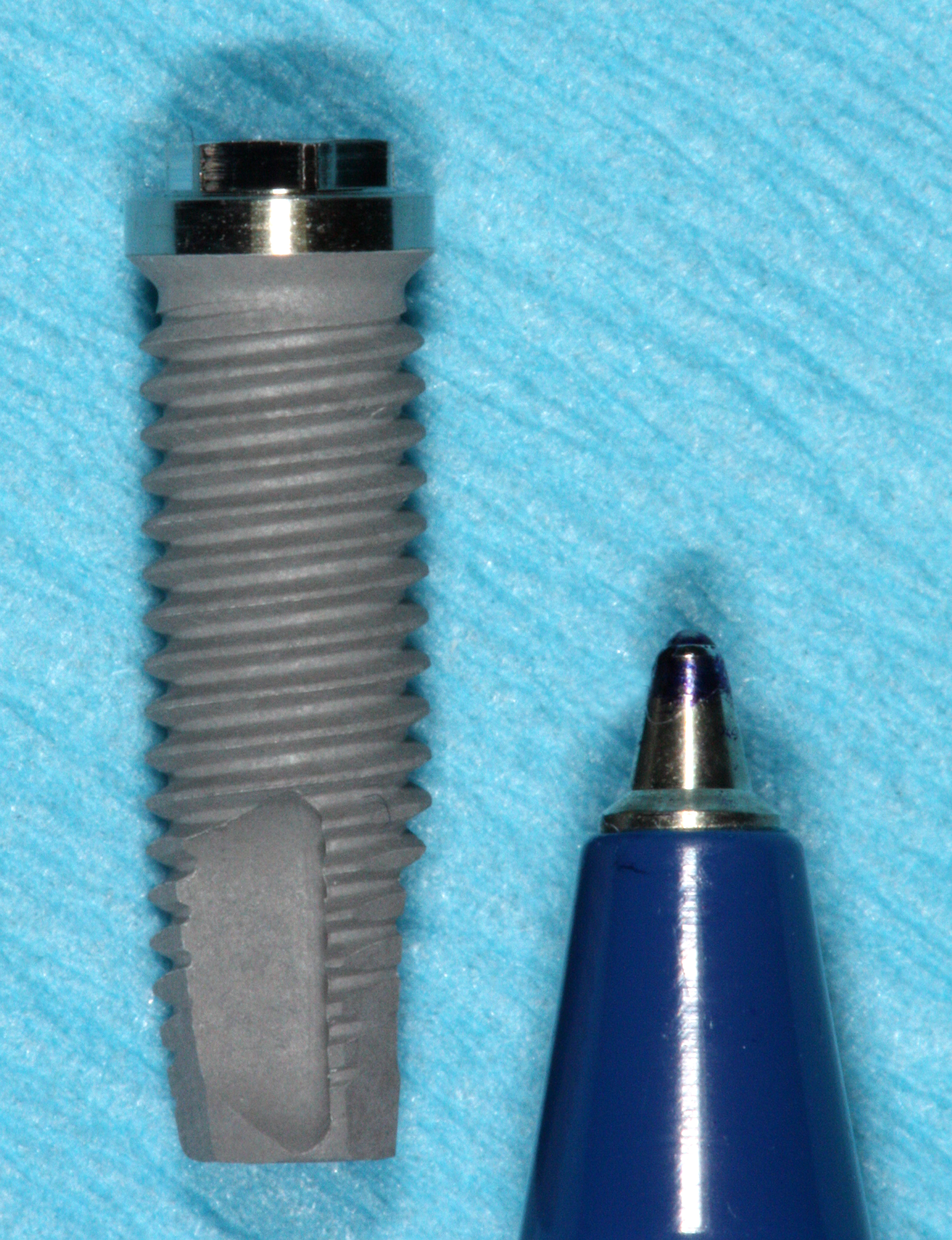 the relative size of a 13mm long dental implant